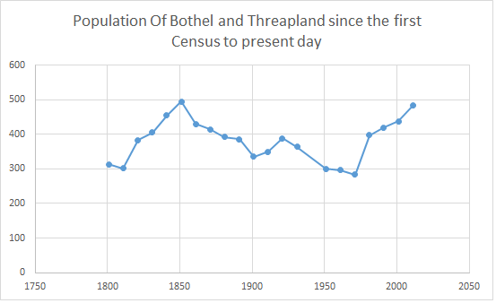 Census data grpah